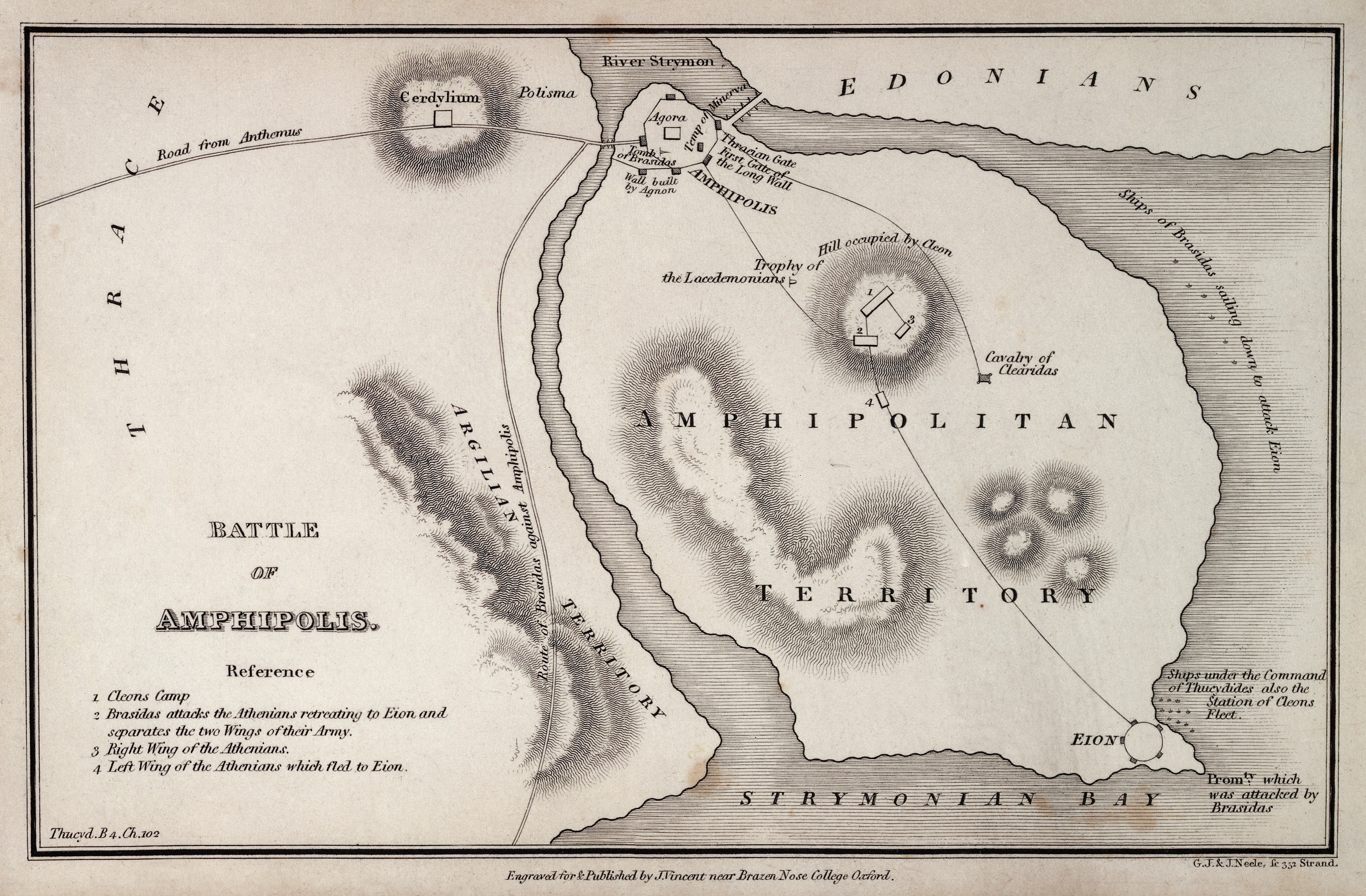 THUCYDIDES Thucydides, Maps and Plans illustrative of Thucydides, containing Northern Greece, Southern Greece, Coast of Asia Minor, etc. Oxford: J. Vincent, ca.1825. Map of Battle of Amphipolis Rare Books Keywords: BATTLE; epb/b 51347/b; amphipolis; thucydides